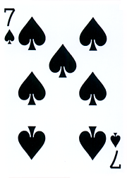 A Playing card: seven of spades , from poker deck, in small PNG format.